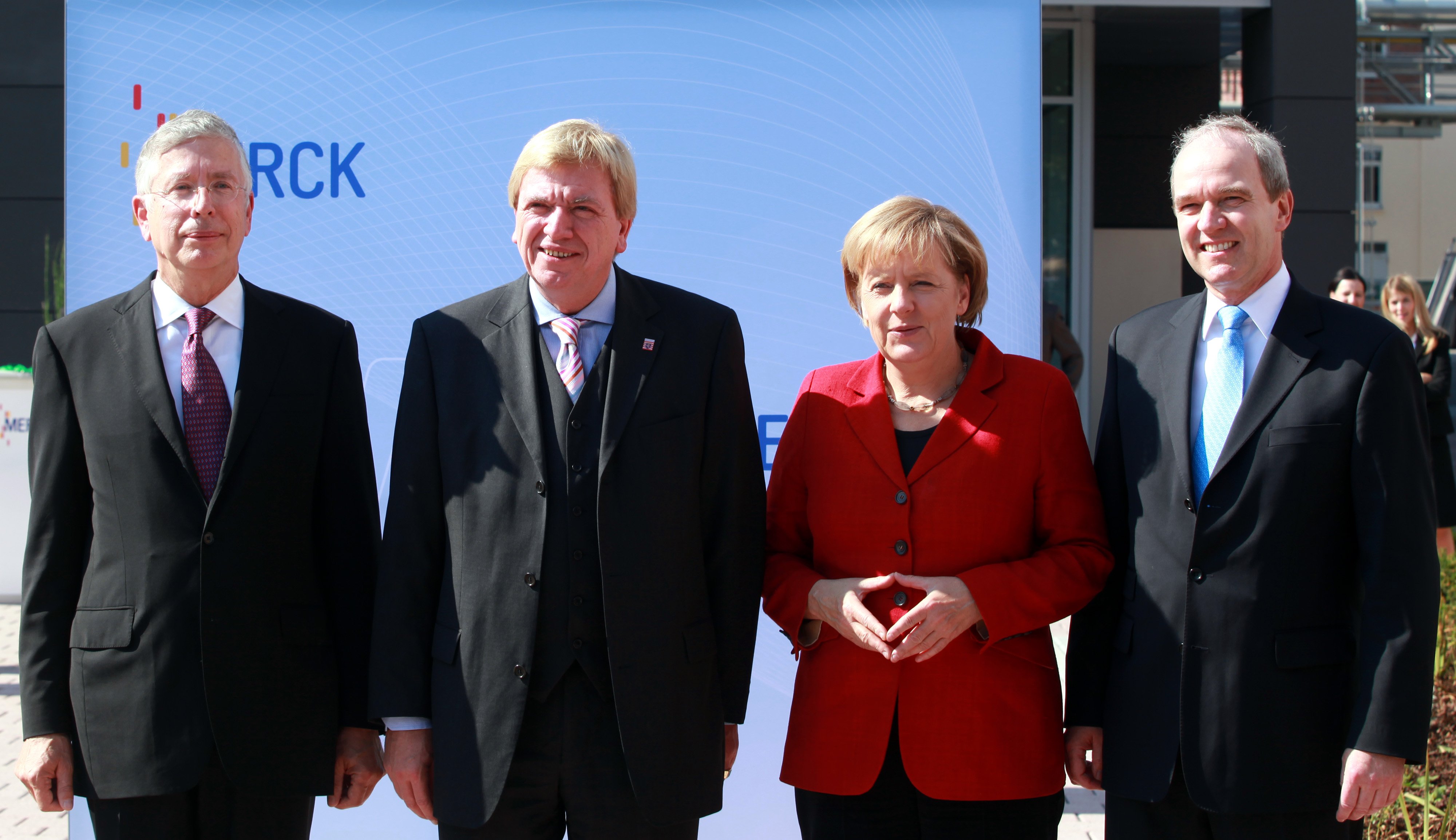 Jon Baumhauer, Volker Bouffier, Angela Merkel und Karl-Ludwig Kley, prior the opening ceremony of Merck's Material Research Center in Darmstadt (Germany).